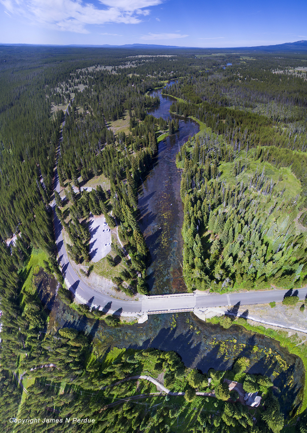 Aerial View from Big Springs including the Henry's Fork of the Snake River that begins at this location.